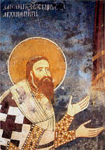 Saint Danilo II the Serb, fresco from Patriarchate of Peć. Taken from